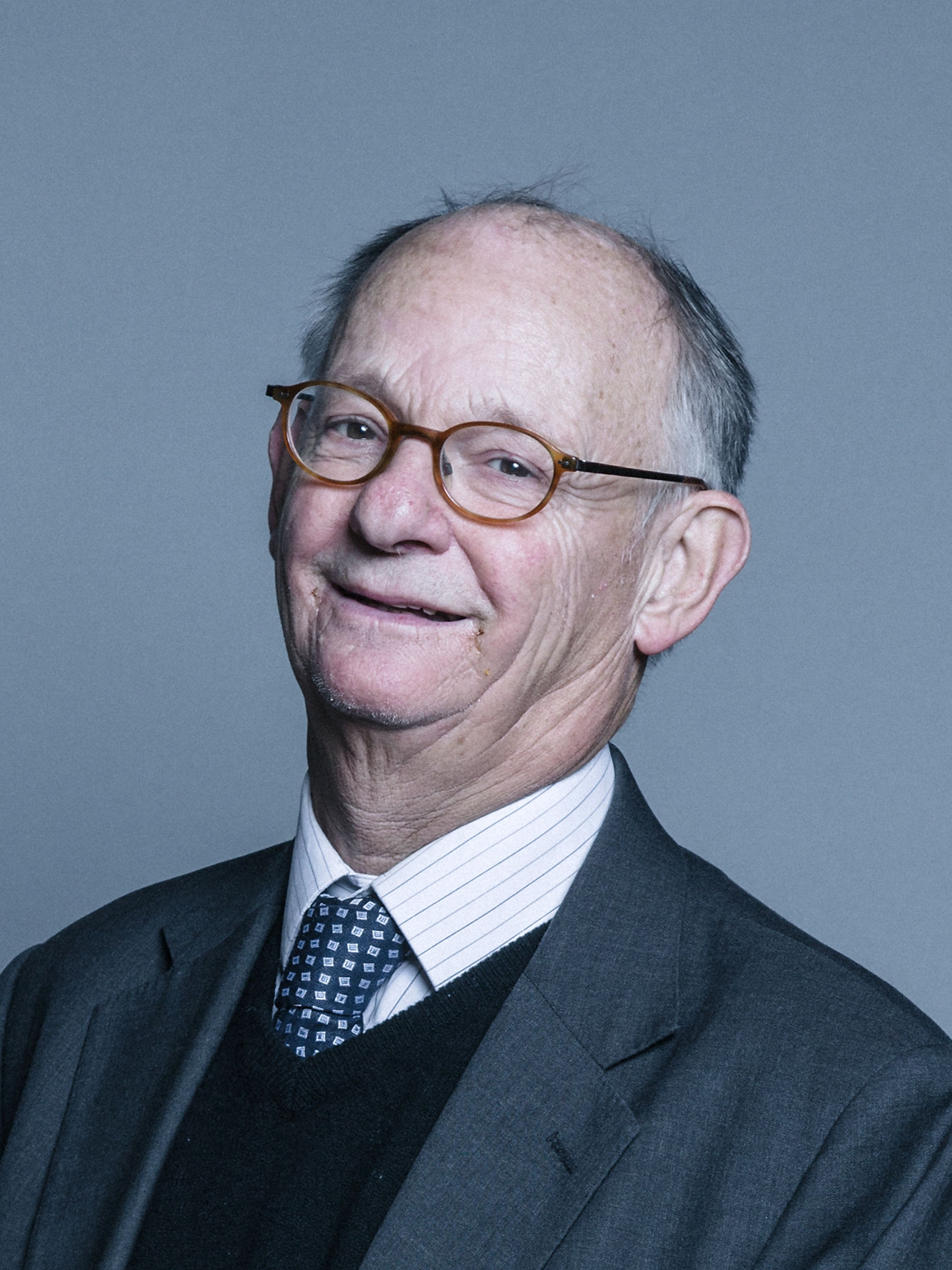 Official portrait of Lord Lipsey